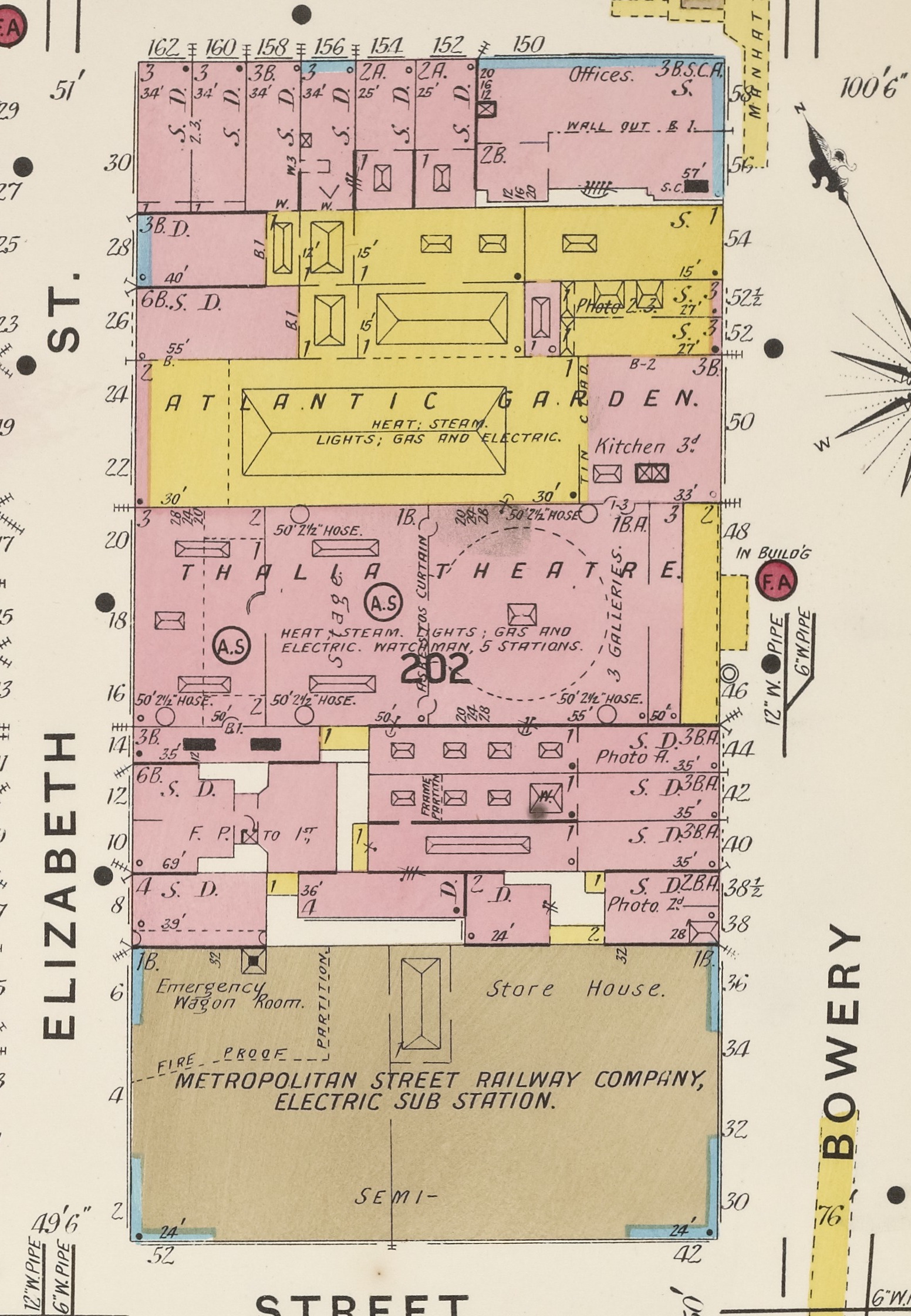 Detail of Plate 32 from: Insurance Maps of the City of New York Borough of Manhattan. Volume One. (New York: Sanborn Map Company, 1905) Block between Elizabeth (west) & Bowery (east), Bayard (south) and Canal (north), including the Thalia Theatre, formerly Bowery Theatre and Atlantic Garden FOR KEY TO MAP SYMBOLS, CLICK HERE.